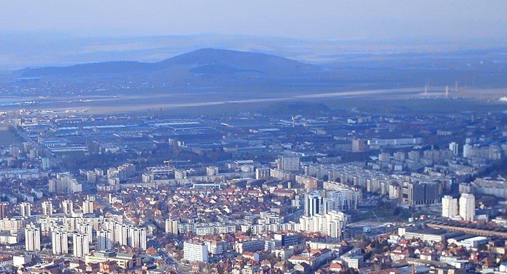 View from Tâmpa mountain towards the large UTB (Uzina Tractorul Brașov) area – an old tractor manufacturing plant – in Brașov, Romania